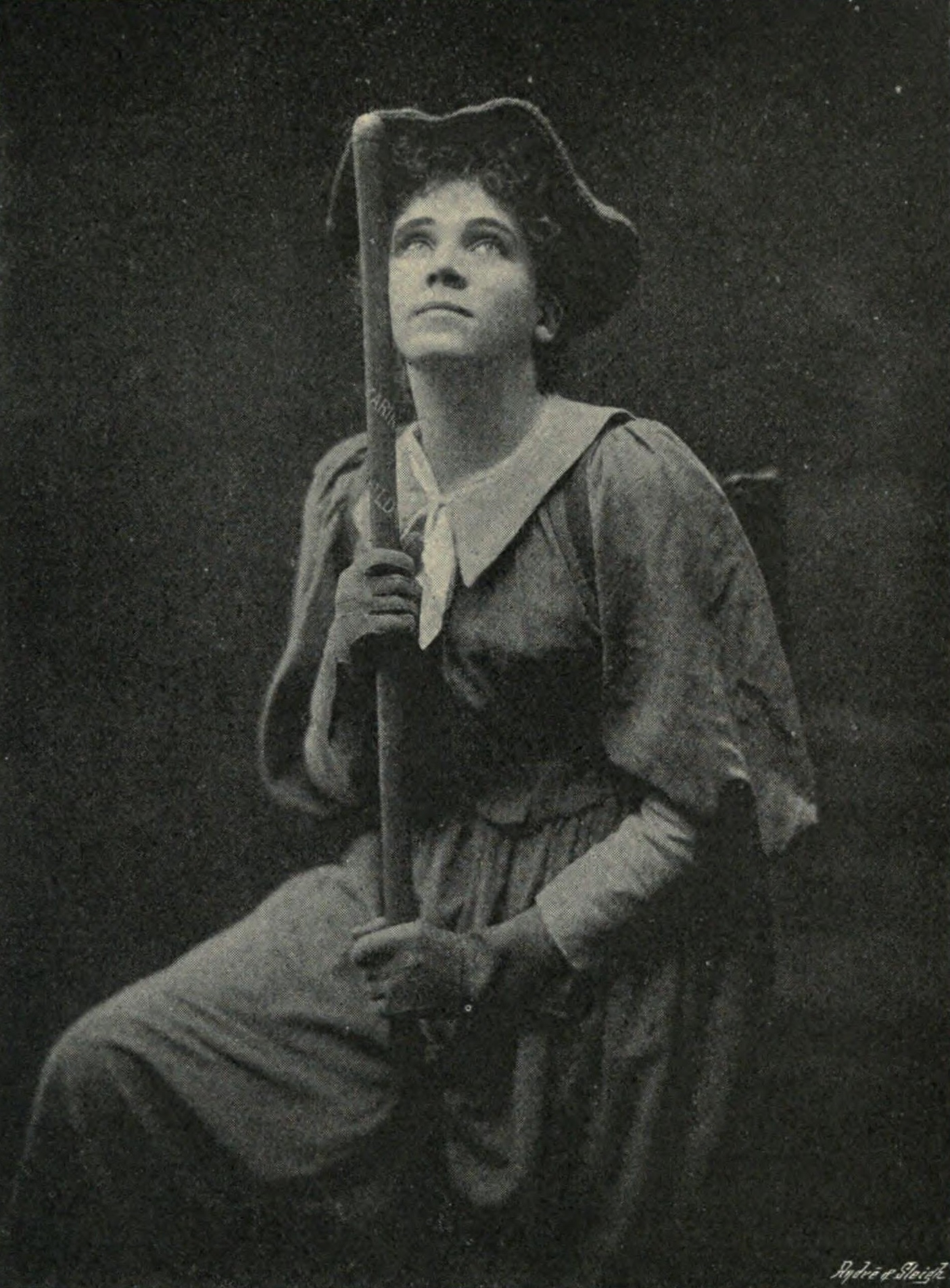 Portrait of Elizabeth Robins